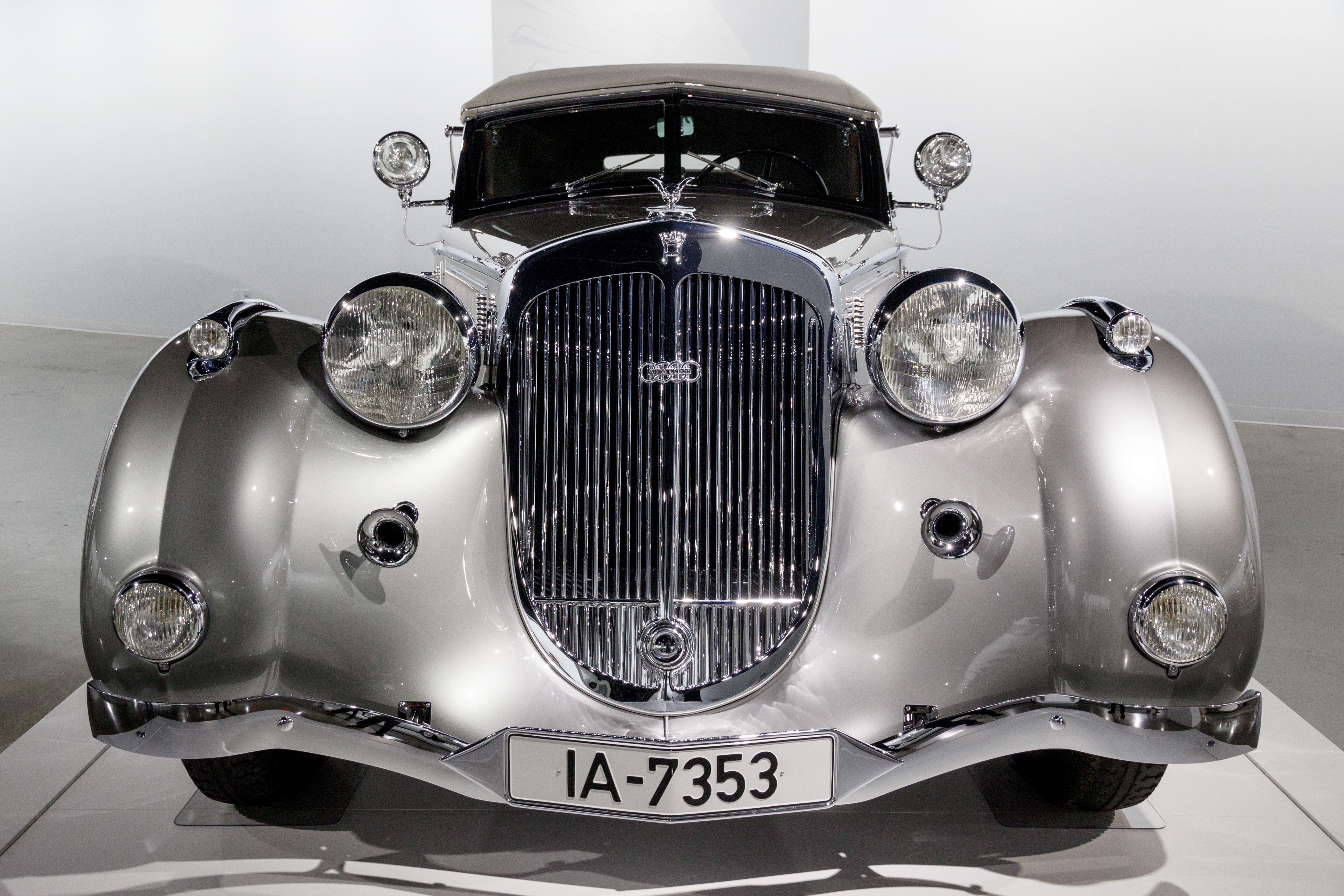 at Petersen Automotive Museum